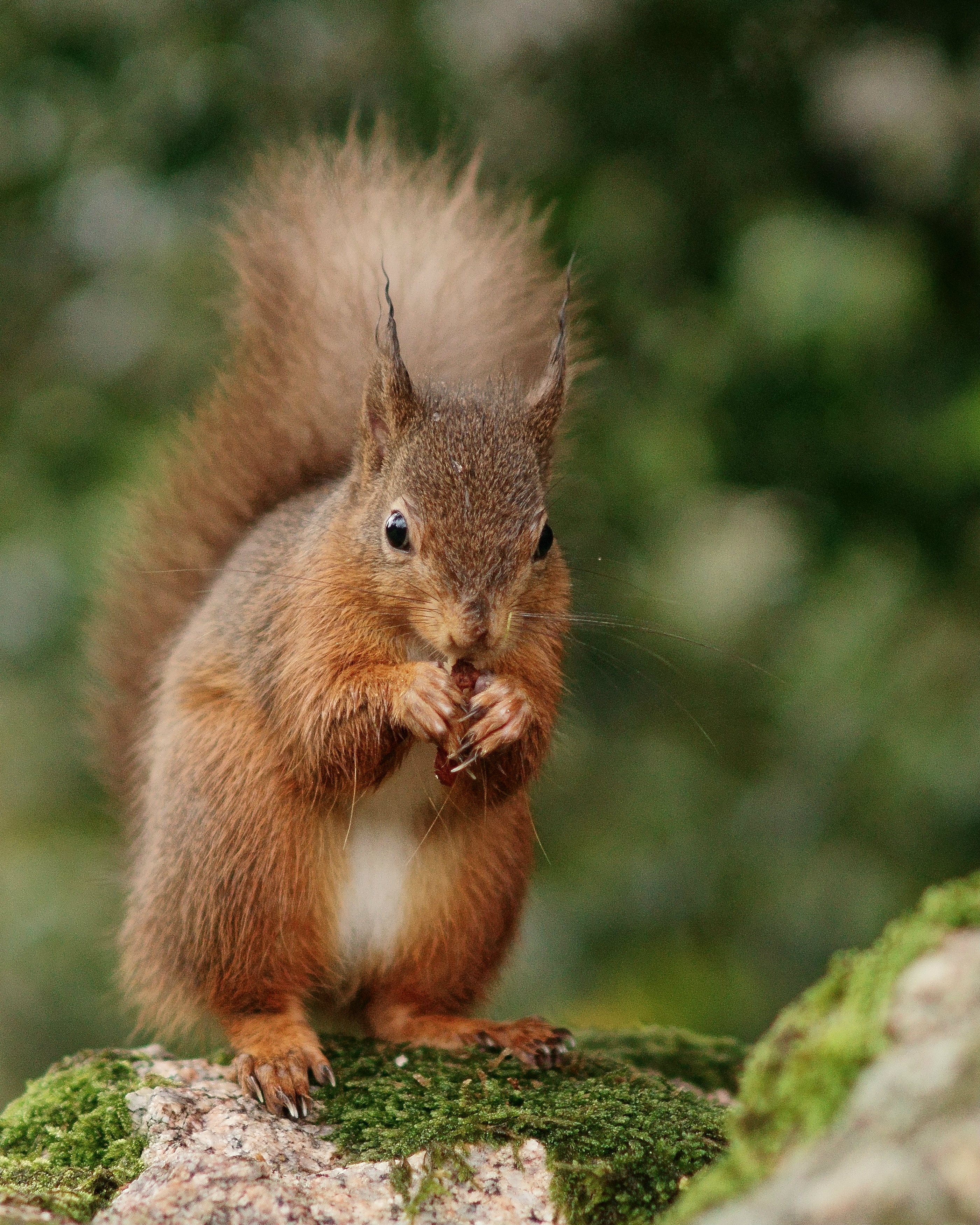 Seen at Forest How, Eskdale.